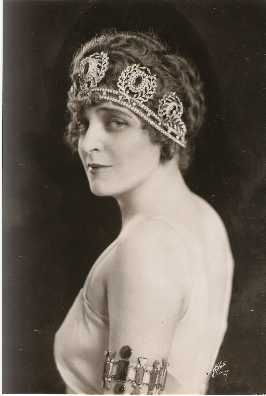 Marguerite Namara in a Chicago production of Thaïs